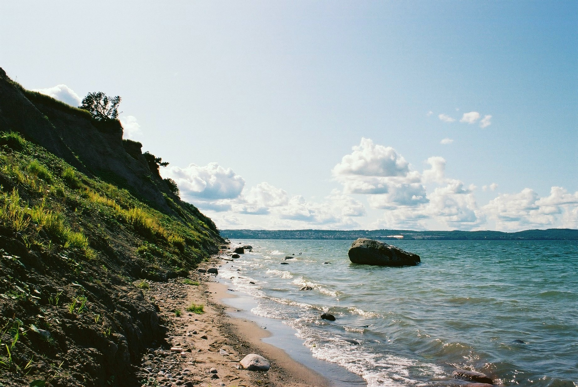 Rosenlundsbankarna taken in 2009